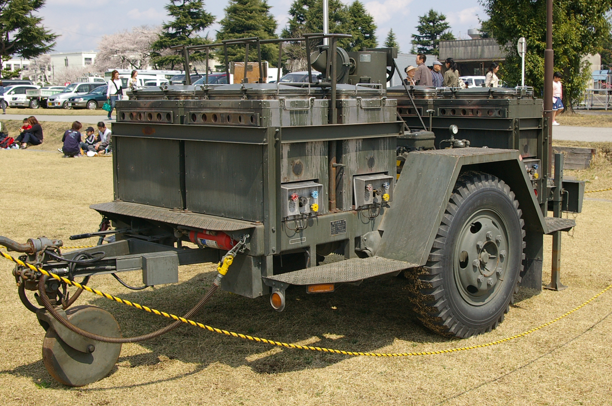 JGSDF Camp-Utsunomiya. Military outdoor kitchen.